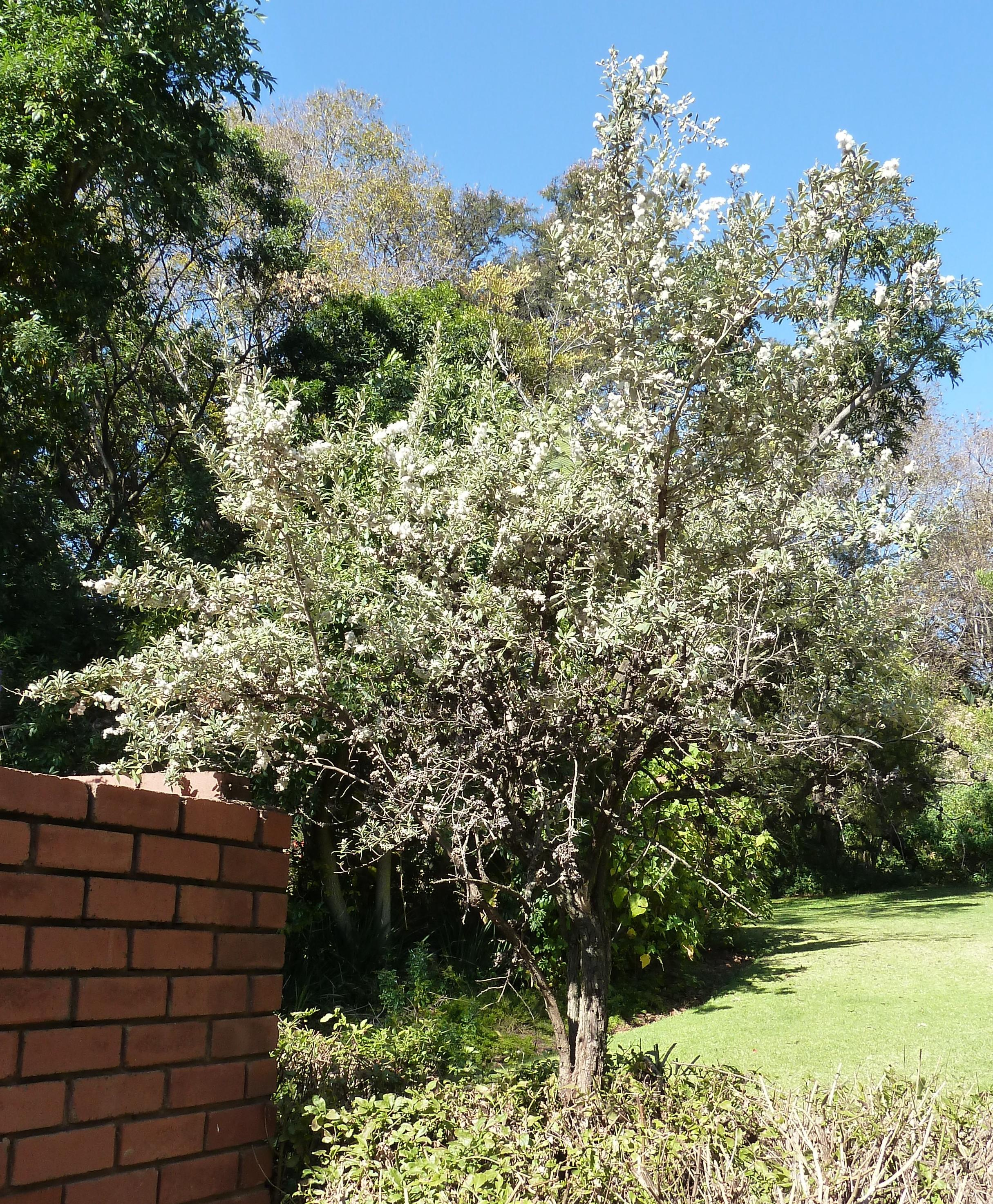 Habit of Vaalbos in Jan Celliers Park, Pretoria